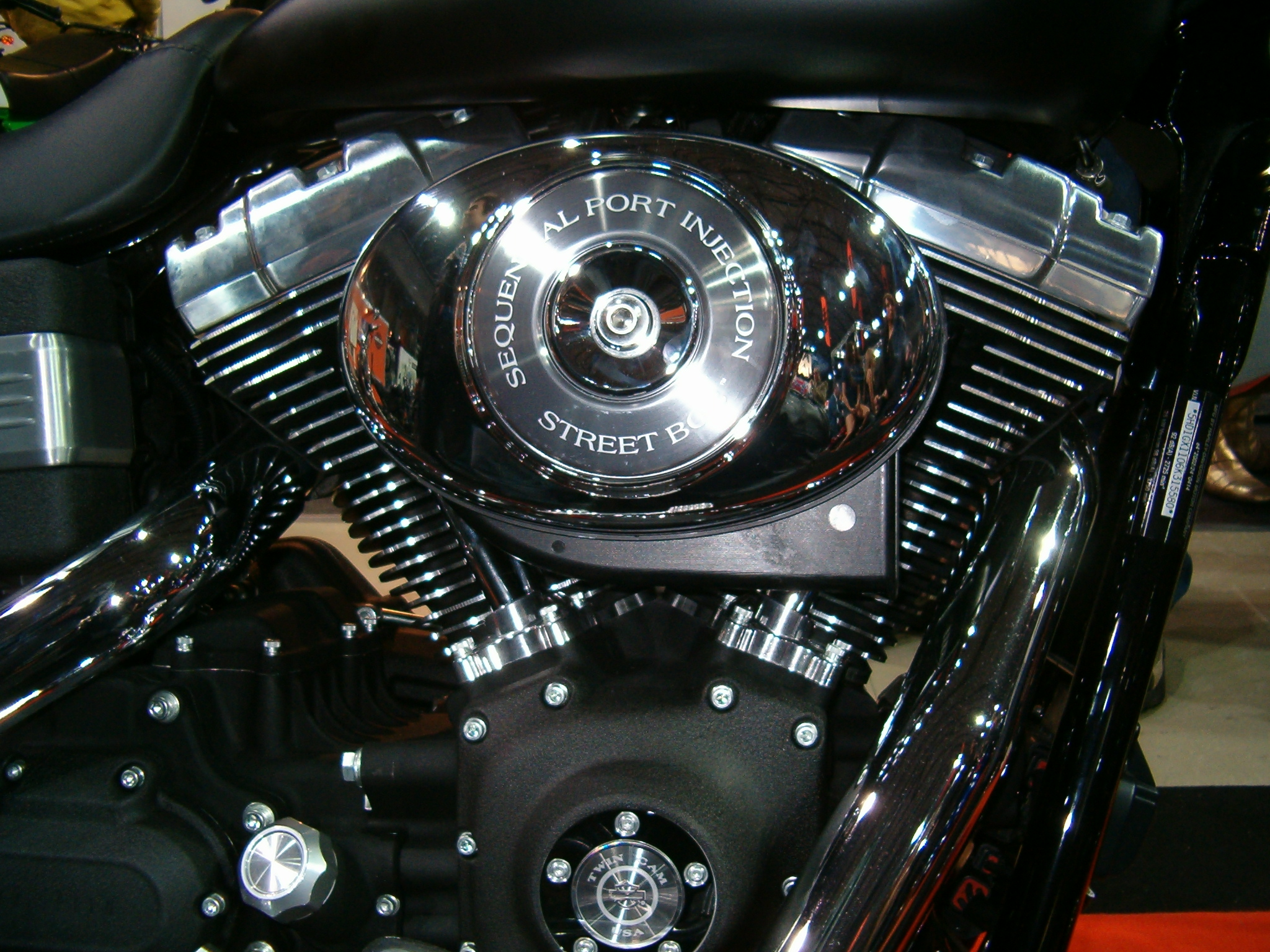 This is a Twin Cam engine (of Harley-Davidson motorcycle). Author: Łukasz Paczuski (Poland)